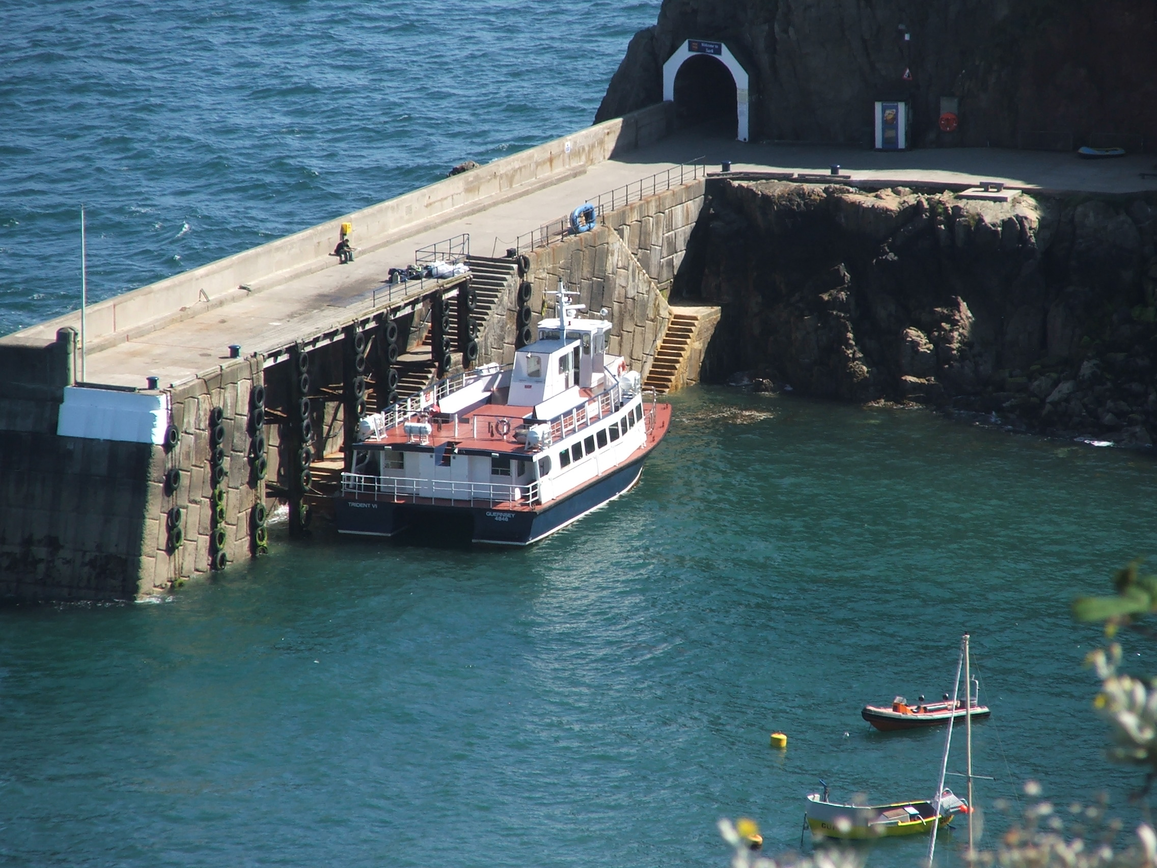 The Isle of Sark Shipping Company runs a year-round passenger and freight service between Sark and the neighbouring island of Guernsey Ship name: Trident VI IMO number: 8022975